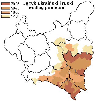 Ruthenians in Second Polish Republic Kreyòl ayisyen : Ukraińcy i Rusini w II RP